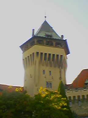 Tower of Castle in Smolenice